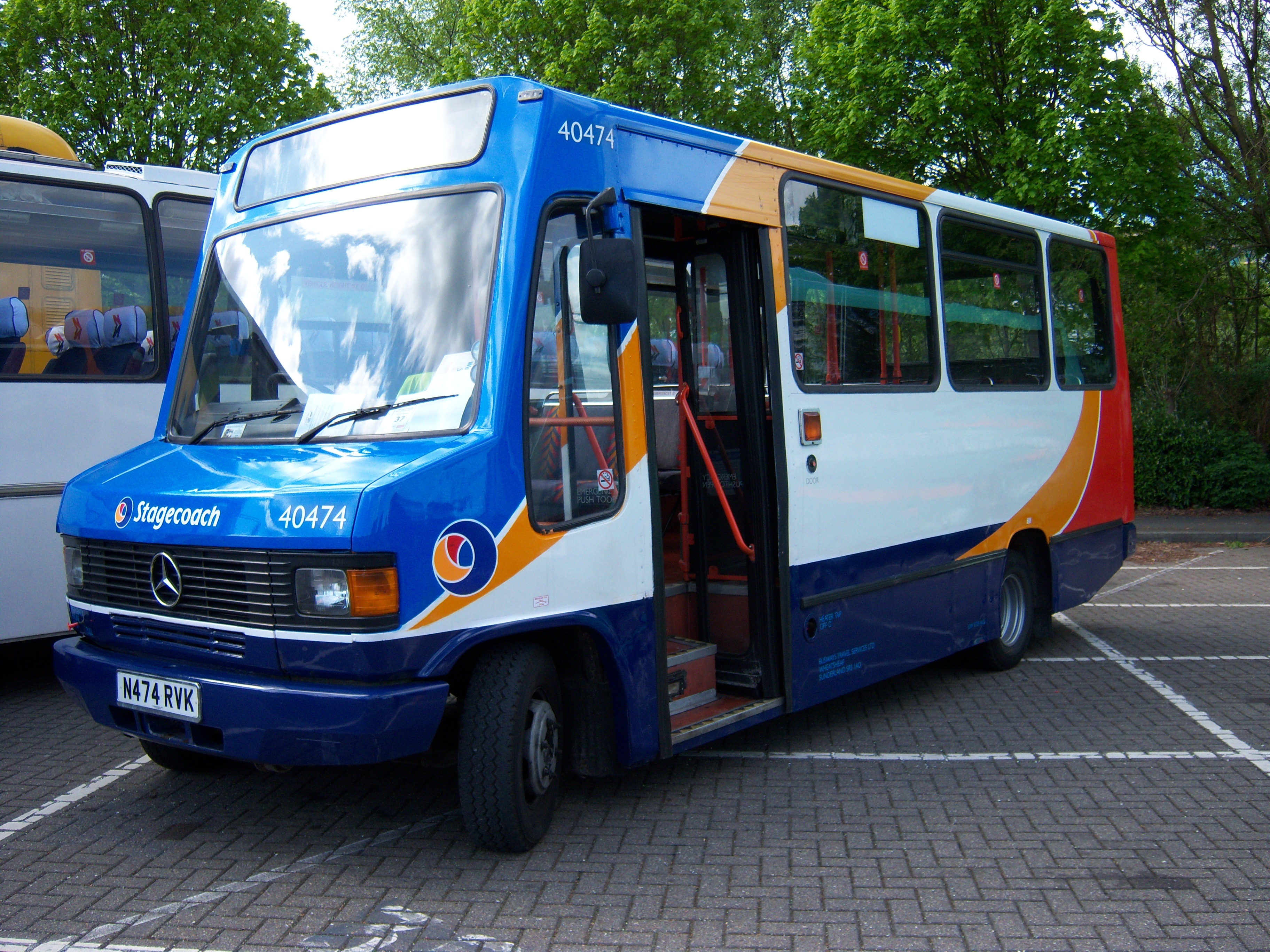 Preserved Stagecoach in Newcastle 40474 (N474 RVK), a Mercedes-Benz 711D/Alexander, on display at the 2009 Metrocentre bus rally. This was the last minibus in service with Stagecoach in Newcastle, and had at the time recently been purchased for preservation.